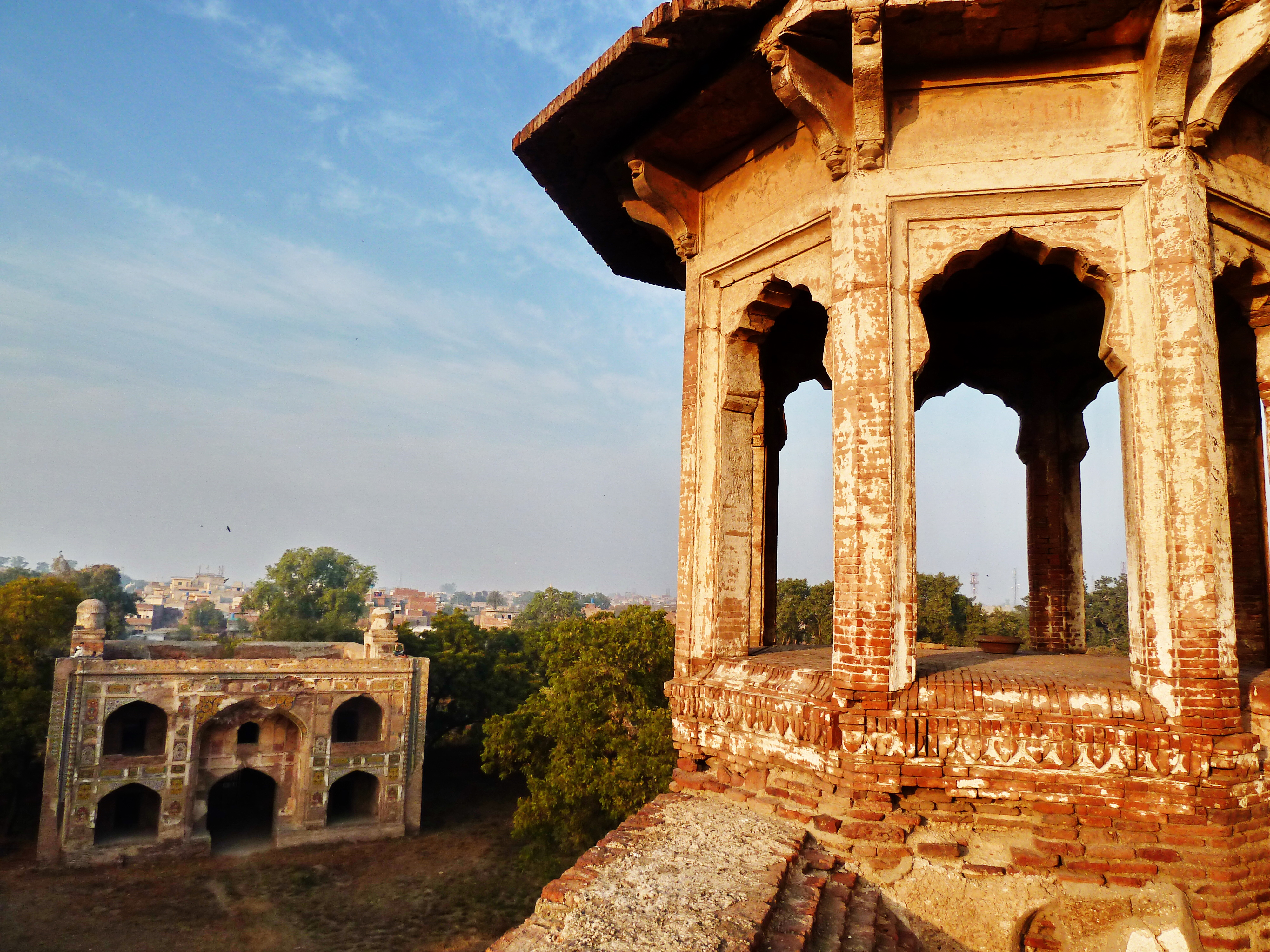 This is a photo of a monument in Pakistan identified as the PB-41